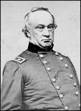 Henry Wager Halleck as a Major-General